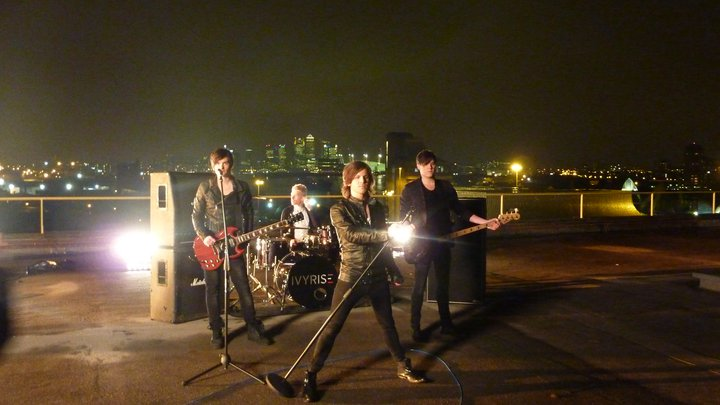 Ivyrise filming the video for Line Up The Stars in London, Feb 2011